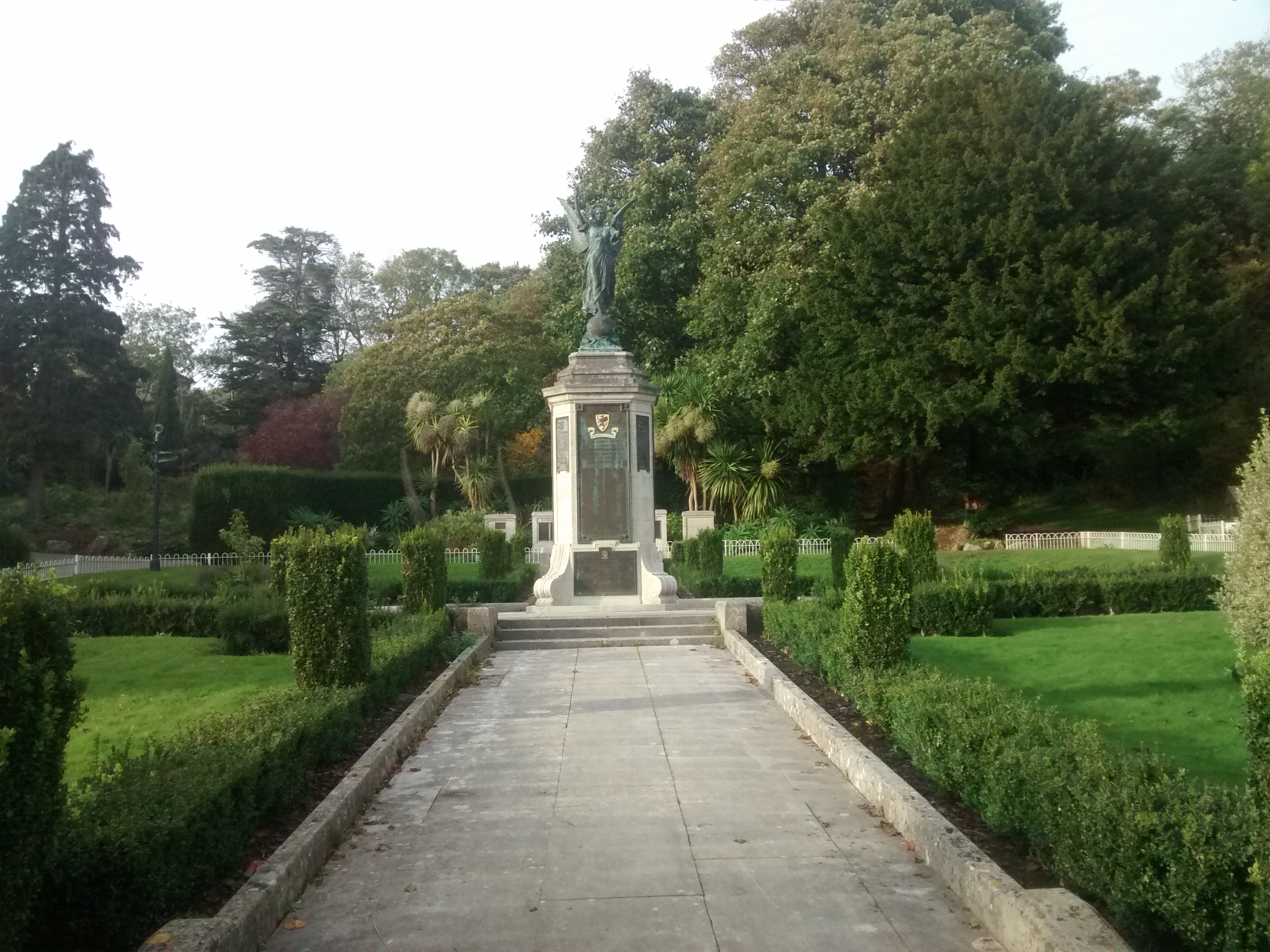 Grove Park War Memorial Wikidata has entry Q26677665 with data related to this item.